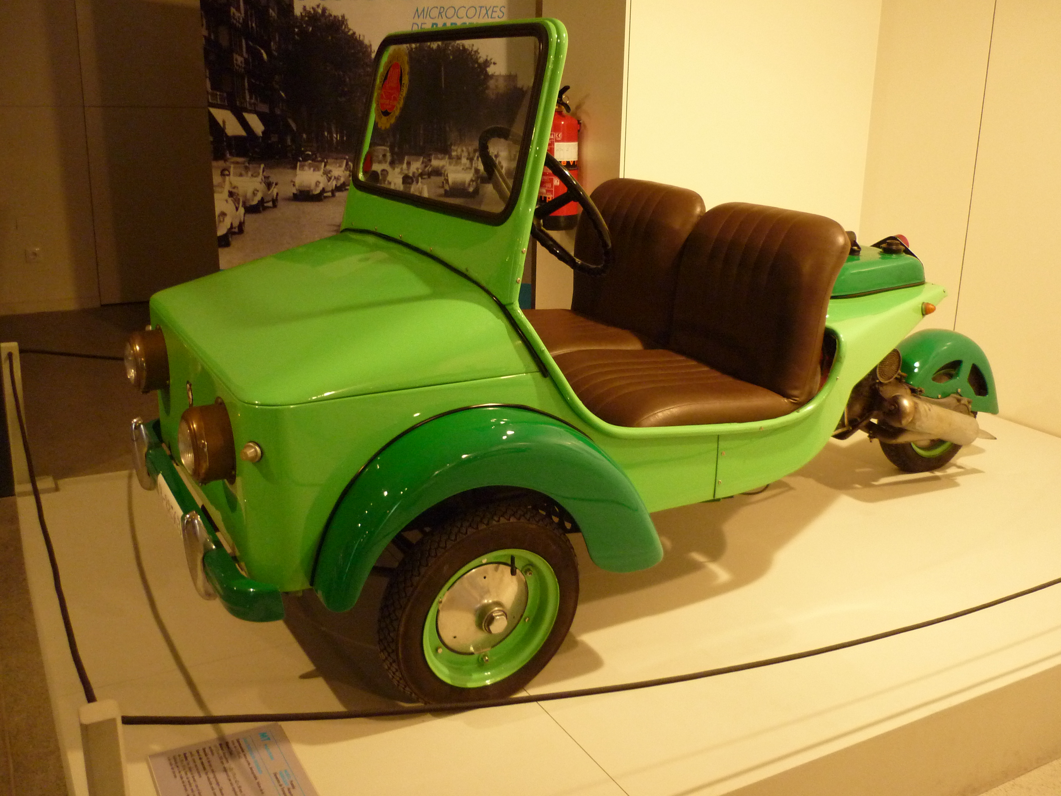 MT Maquitrans prototype (1954), microcar made in Barcelona (Catalonia)